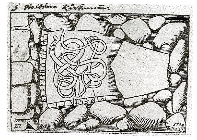 drawing